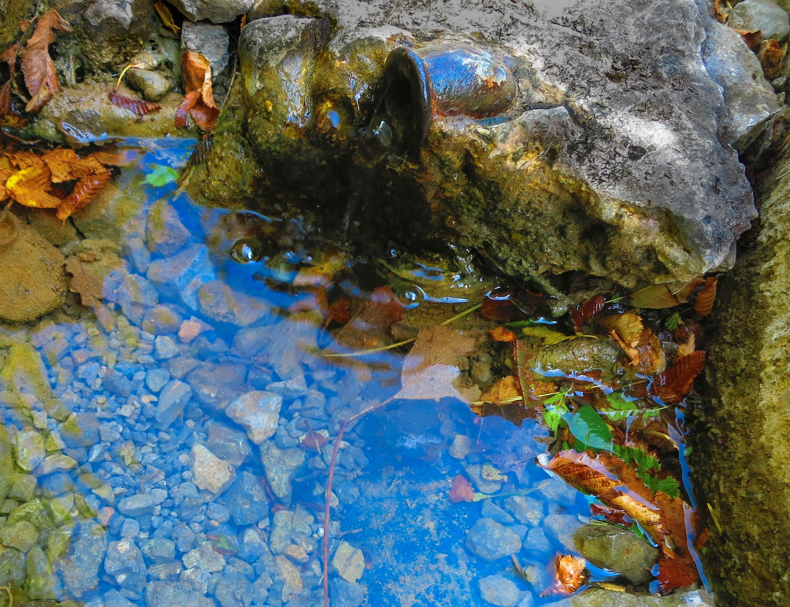 Little piped spring in Velika Paklenica Canyon, Velebit mounatain range, Croatia